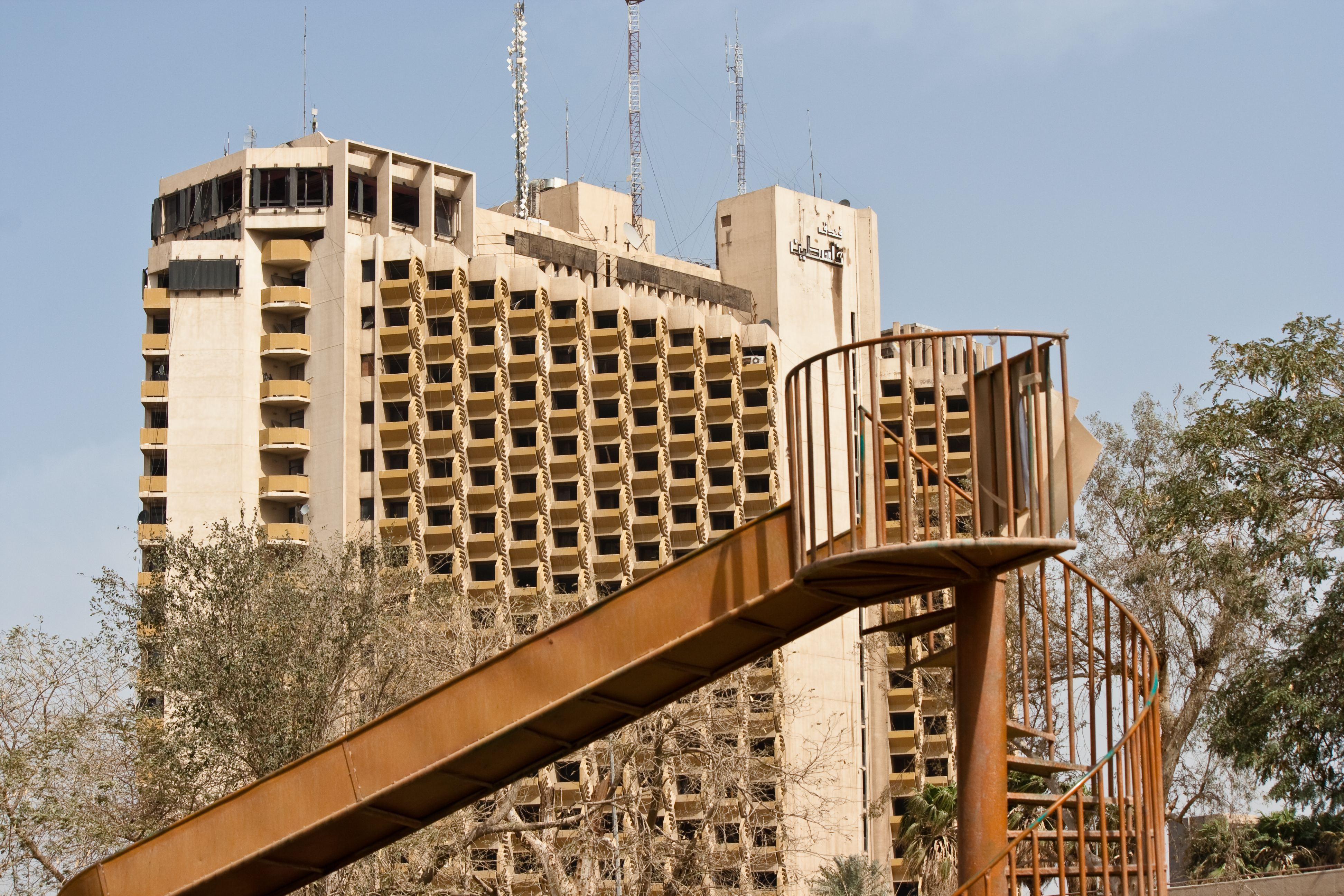 Meridien Hotel, behind a play ground